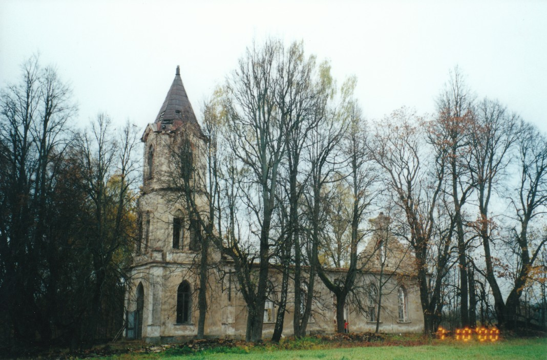 Lutheran church in Sēlpils